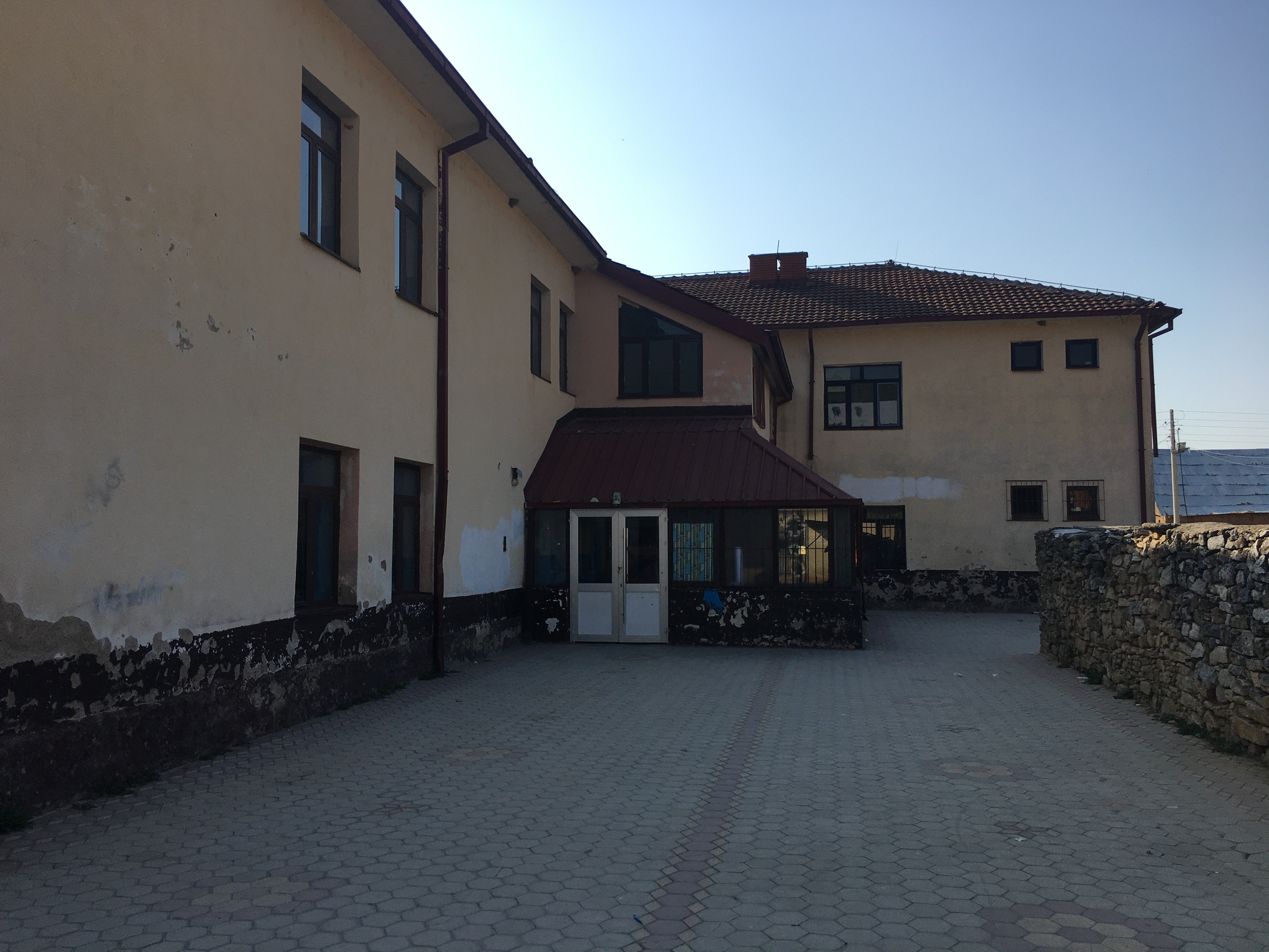 Vera Ciriviri Trena Primary School in the village of Debrešte